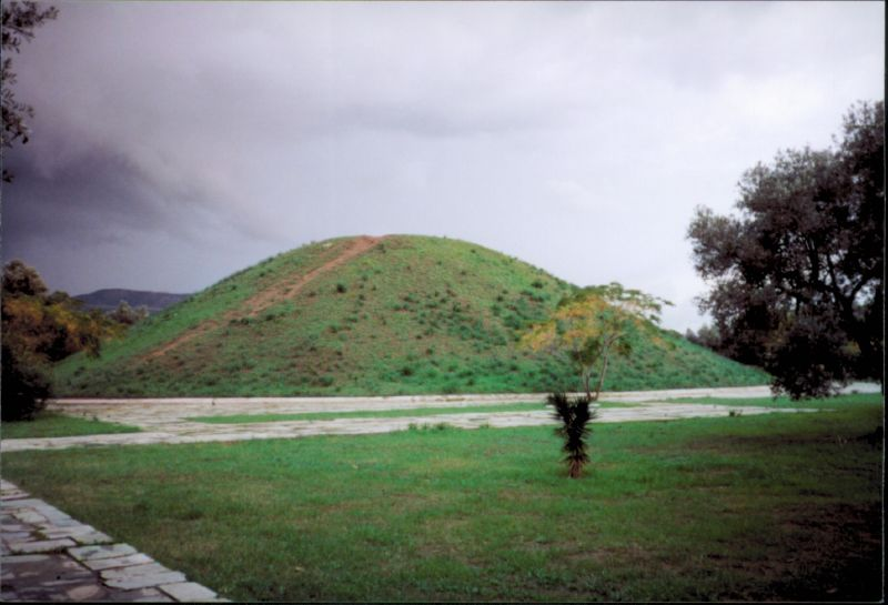 Hill, the tumulus, where the Athenians were buried after the Battle of Marathon.